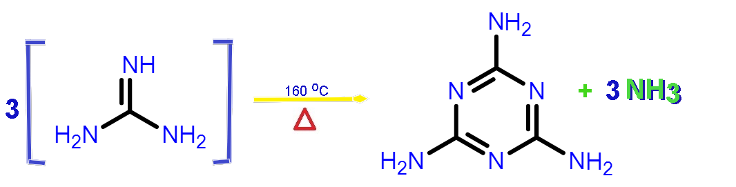 Melamine synthesis by guanidine pyrolisys